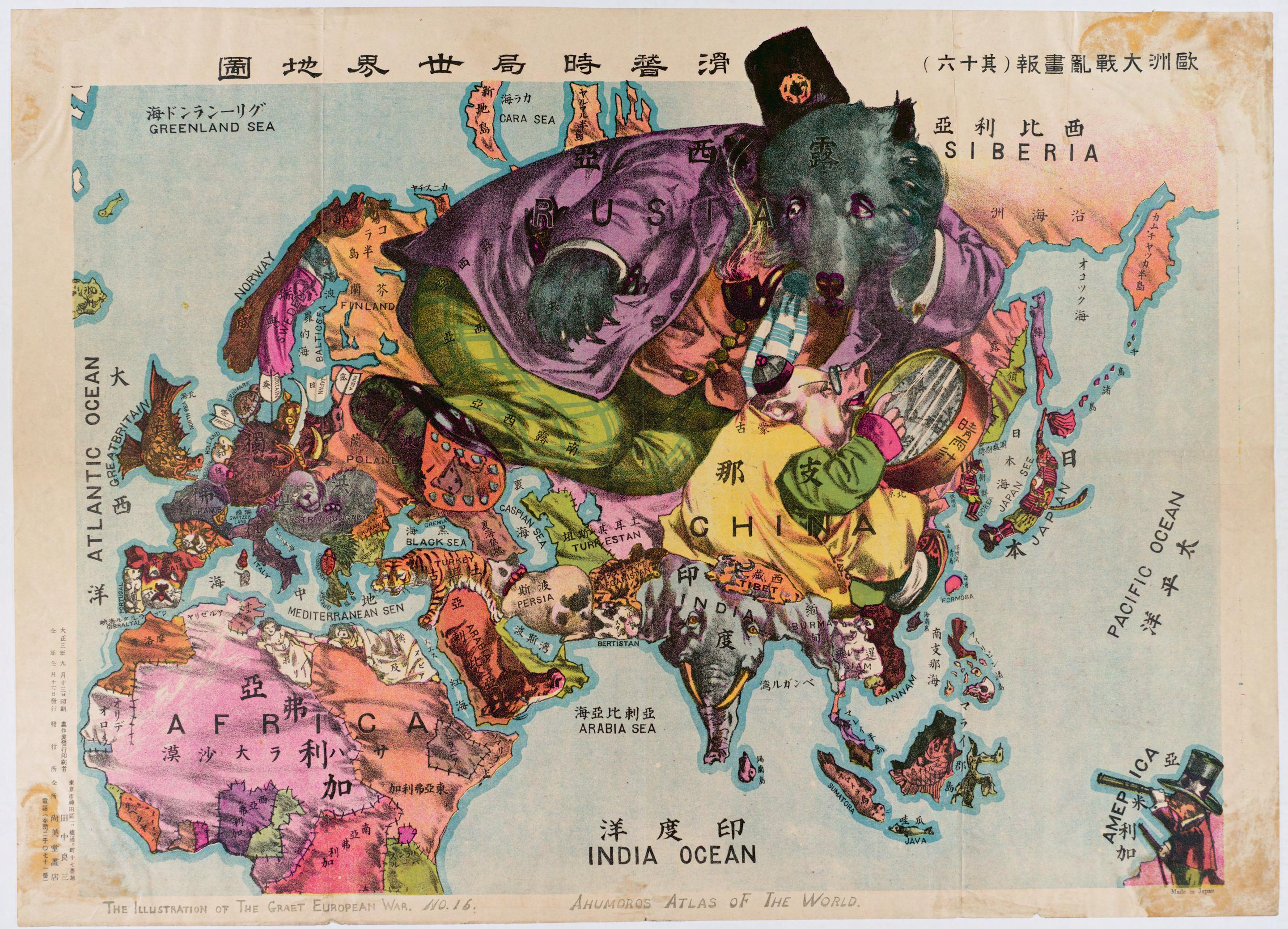 The Illustration of The Great European War No.16. - A humorous Atlas of the World. (Printing 13.09.1914)